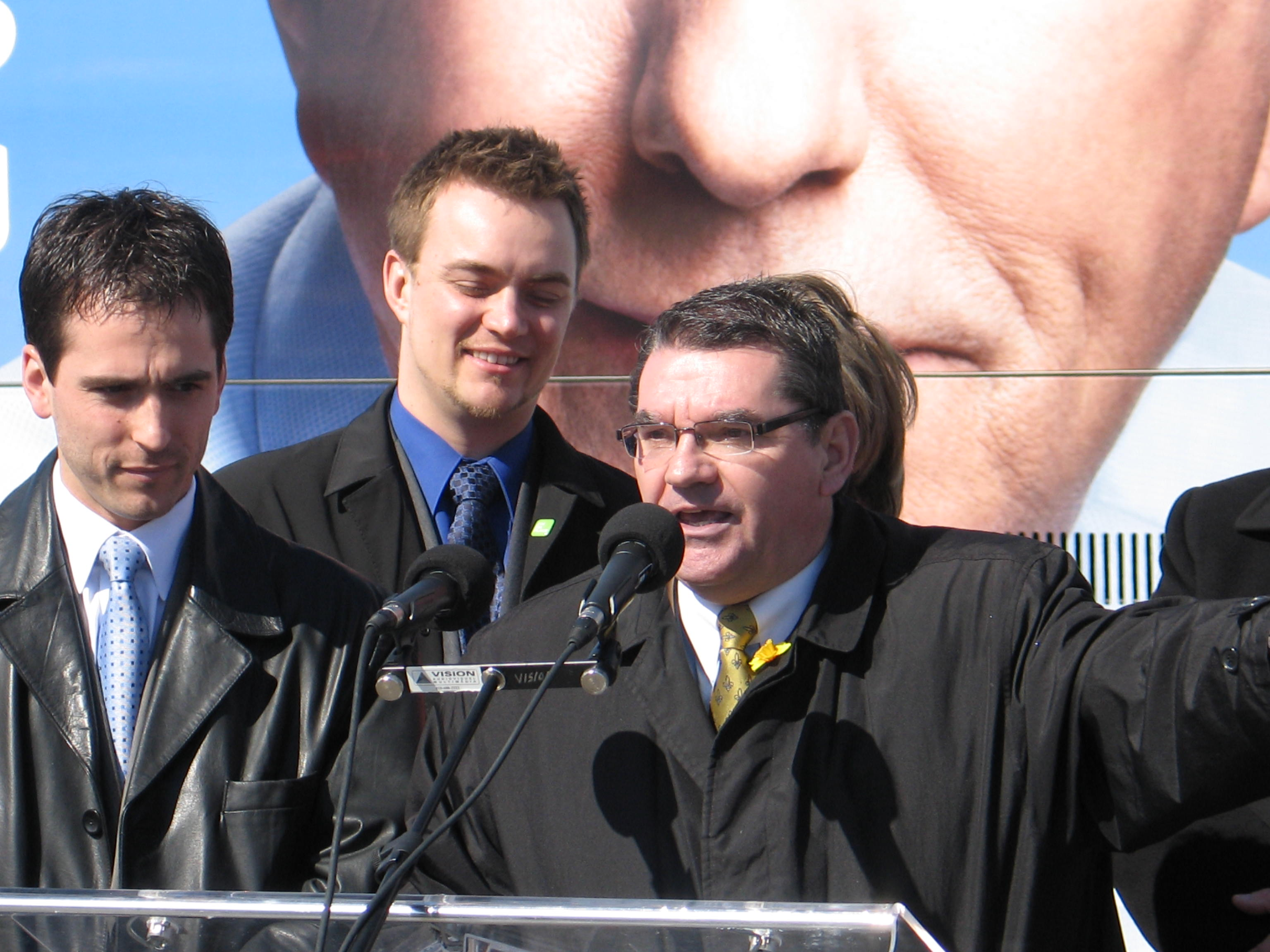 Bloc Québécois MP Michel Guimond at a news conference in Quebec City during the Canadian federal election campaign, 2011.